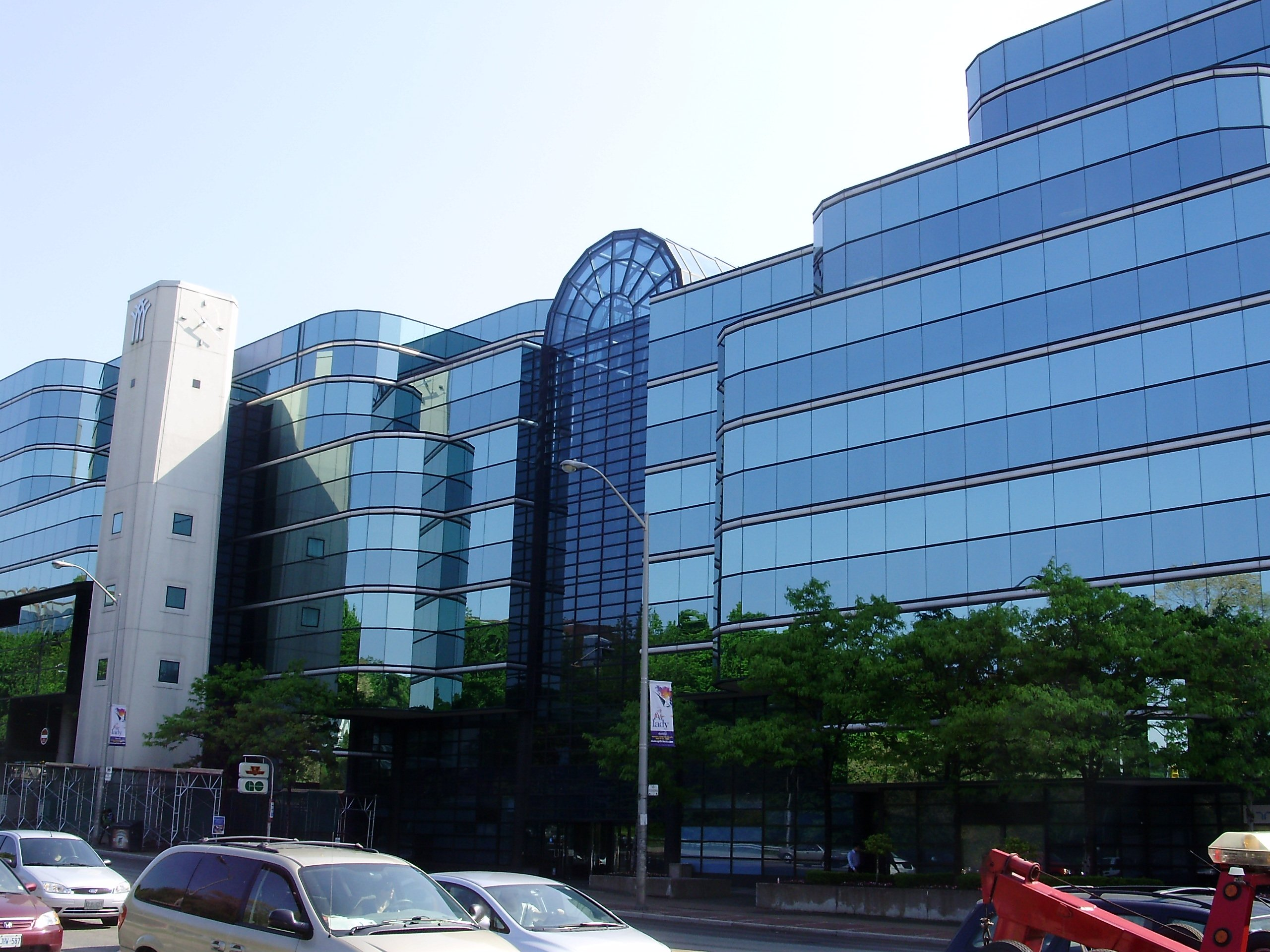 A view of the York Mills Centre complex, photographed from the east side of Yonge Street, in Toronto, Canada.